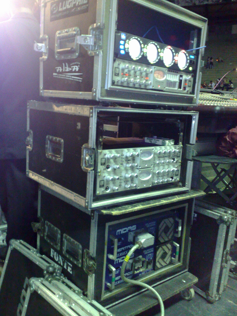 Audio equipment used at the concert by Hillsong United at Gigantinho sports arena in Porto Alegre, Brazil, on 13 November 2009. Dolby Lake Processor - Digital Loudspeaker Management Processor (Contour Pro 26 + MESA Quad EQ) Avalon Designs VT-747SP Stereo Tube Opto-Compressor w/EQ Avalon Design VT-737SP Pure Class A Preamplifier Midas power supply for audio console